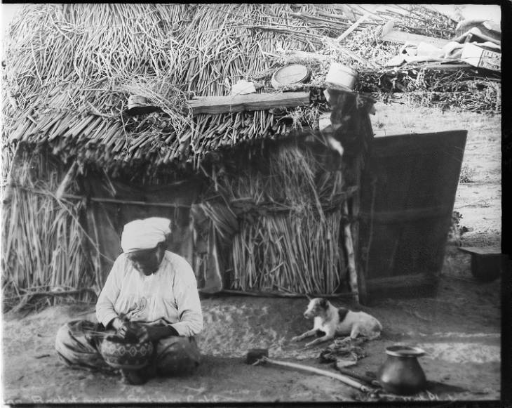 Luiseño basket maker with dog sitting outside of traditional dwelling in Soboba